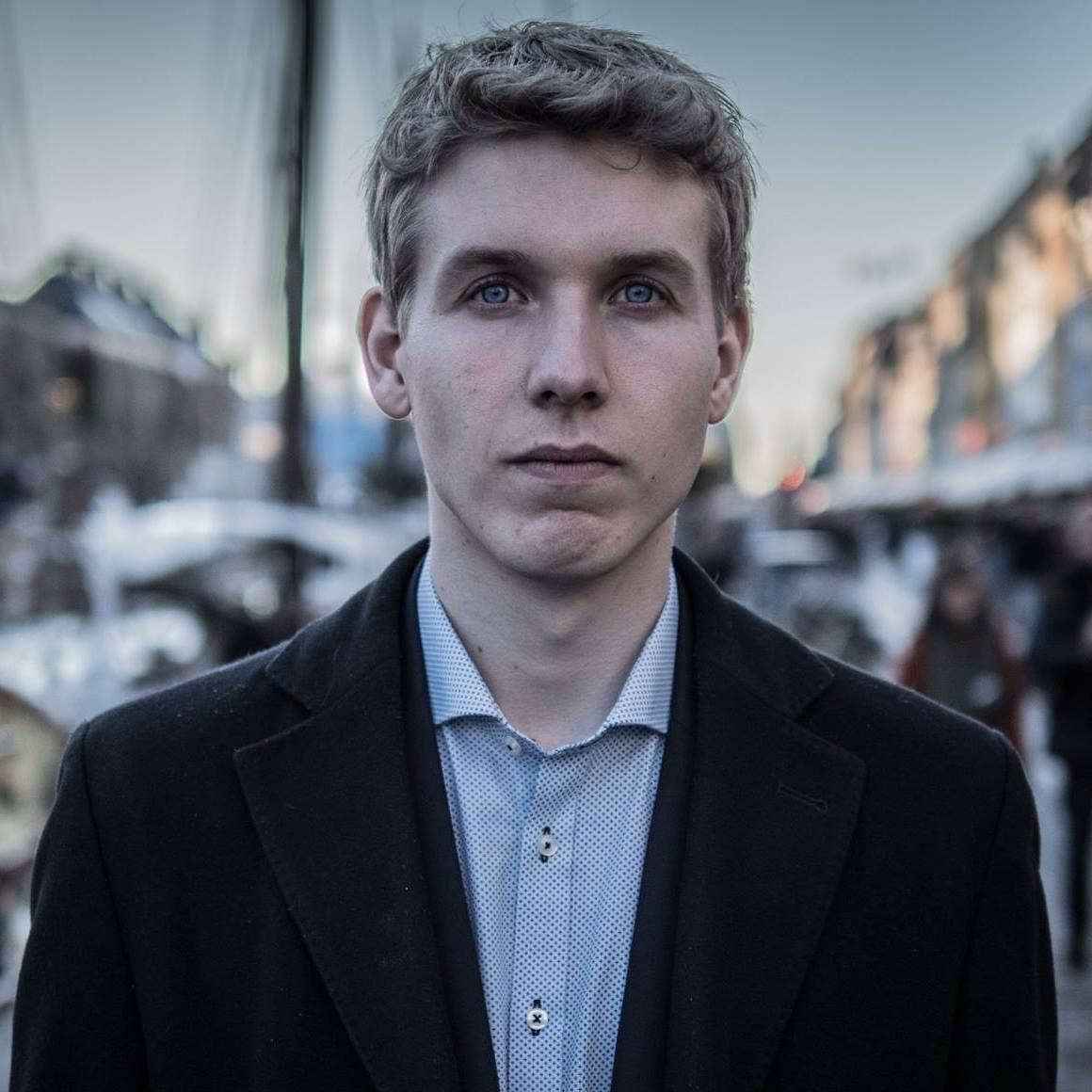 Portrait of Rasmus Brygger